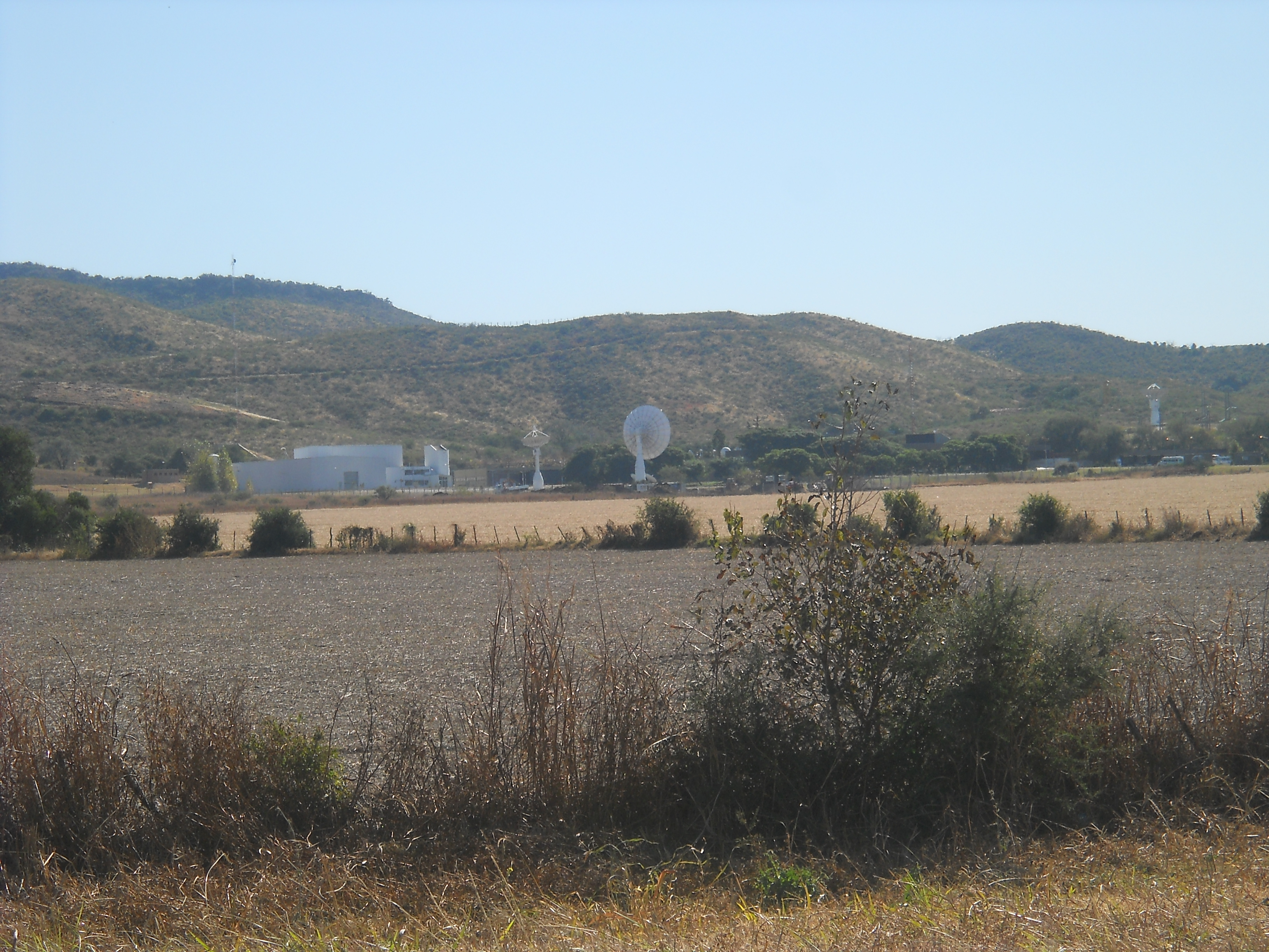 Teófilo Tabanera space center in Argentina, along provincial route 45.